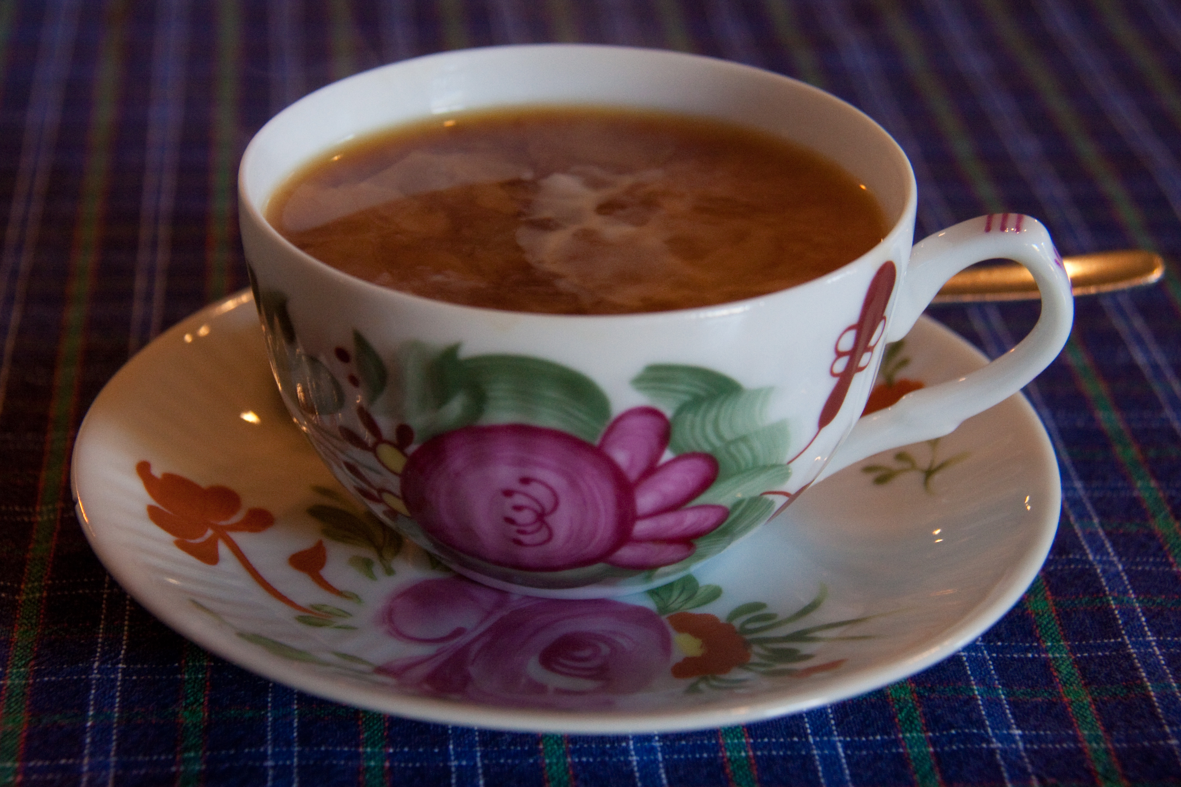 typical east frisian tea with cream in a cup with decor “Ostfriesische Rose” (East frisian rose)